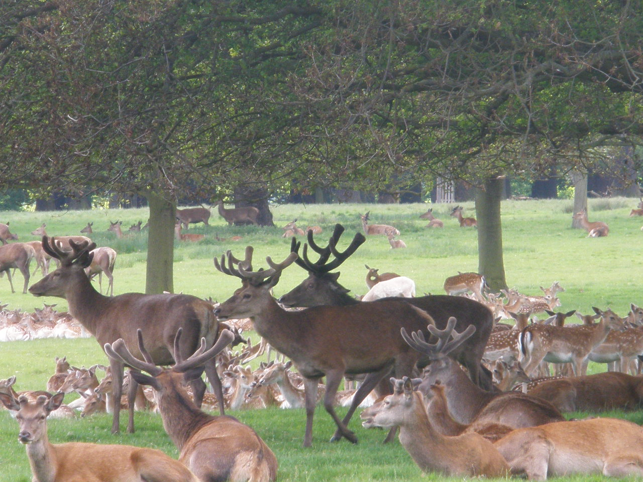 A big, mixt herd of deers. Containing Western European red deers (Cervus elaphus elaphus) and Fallow Deers (Dama dama); in Richmond Park, England.